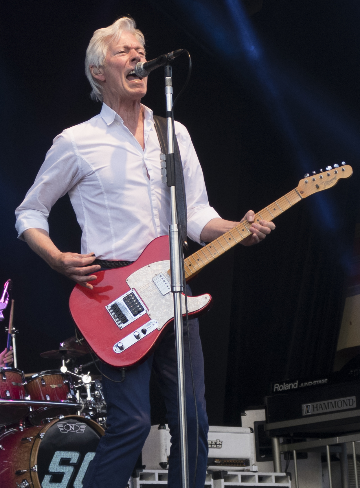 Andy Bown, keyboardist and guitarist of Status Quo, performing live at Gröna Lund, Stockholm, Sweden, 2016-07-03